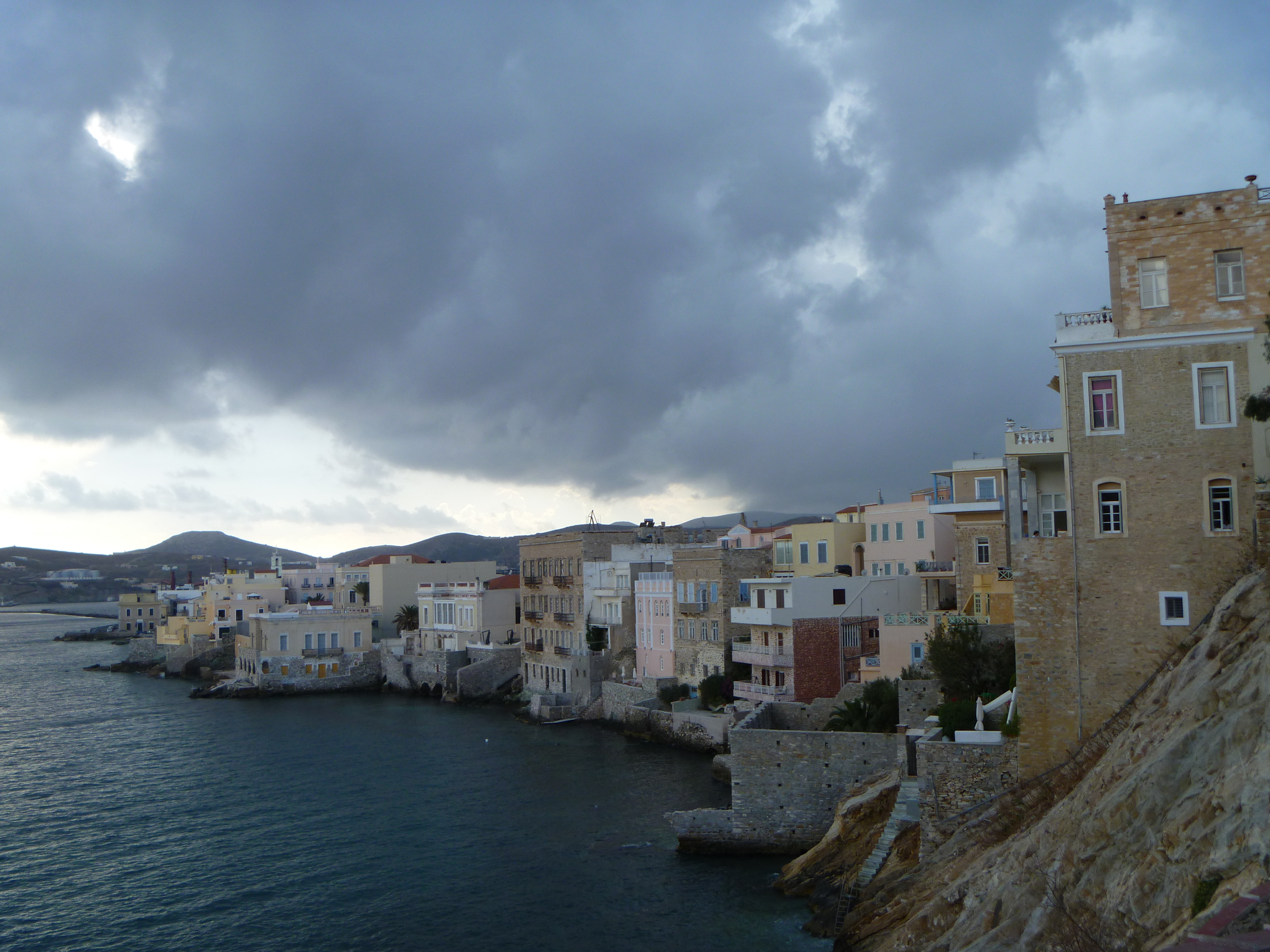 Vaporia quarter of Ermoupoli